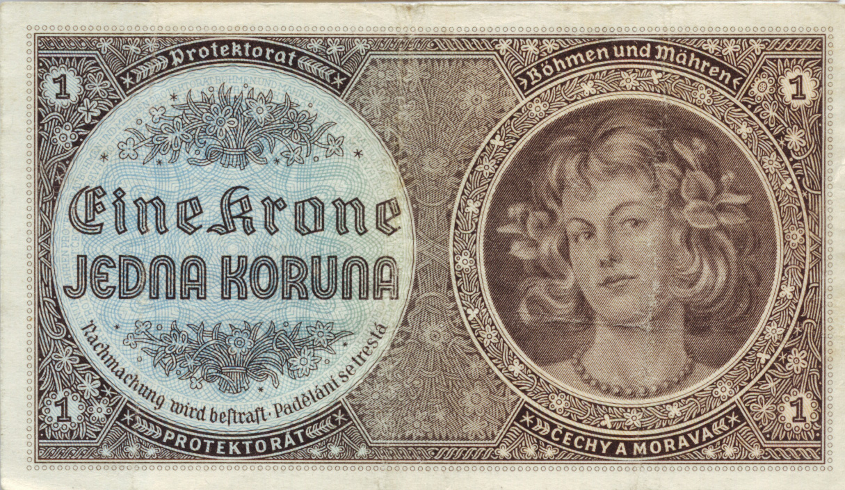 1 Koruna Note of Protectorate of Bohemia and Moravia - obverse.